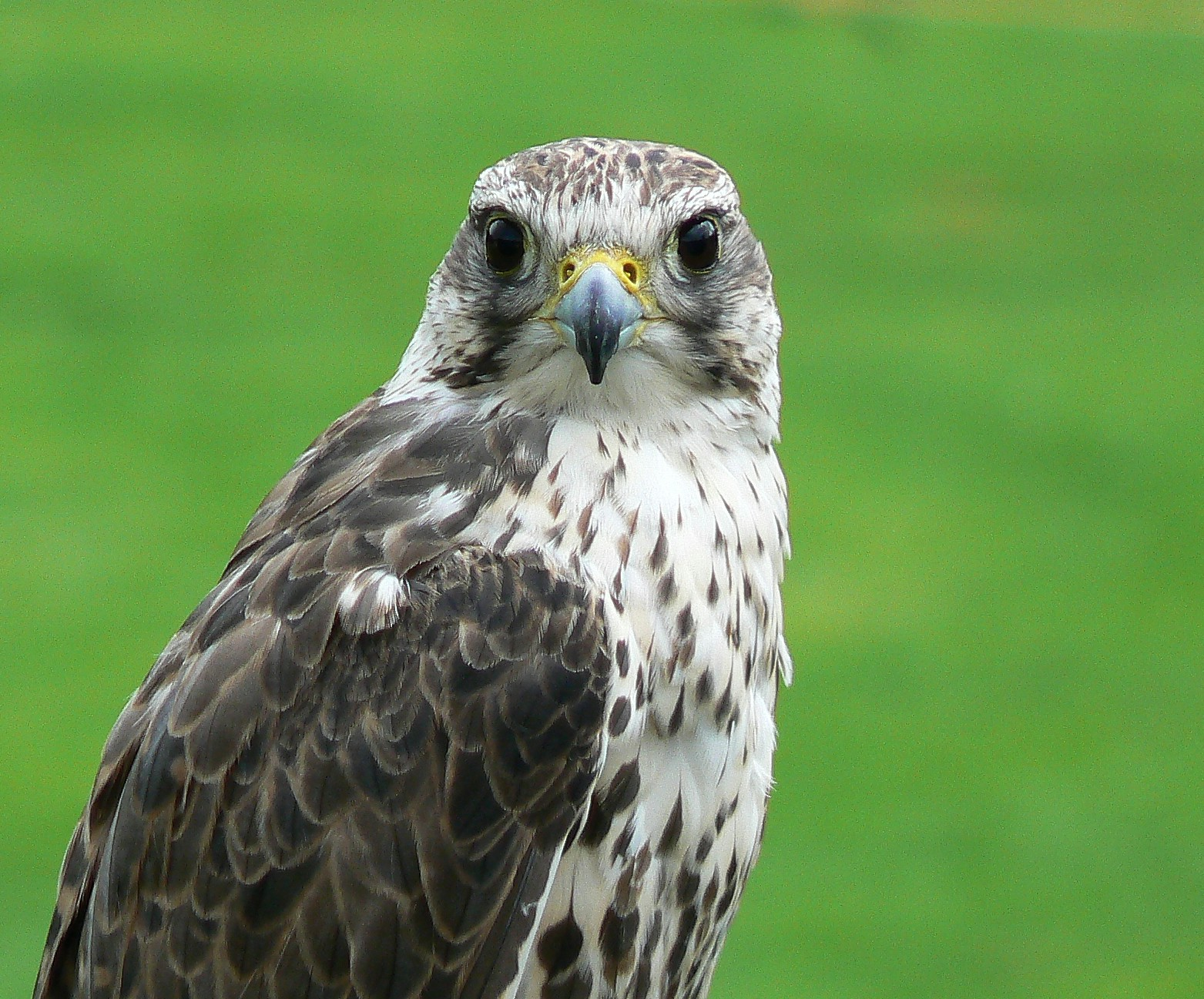 A Saker Falcon (Falco cherrug).